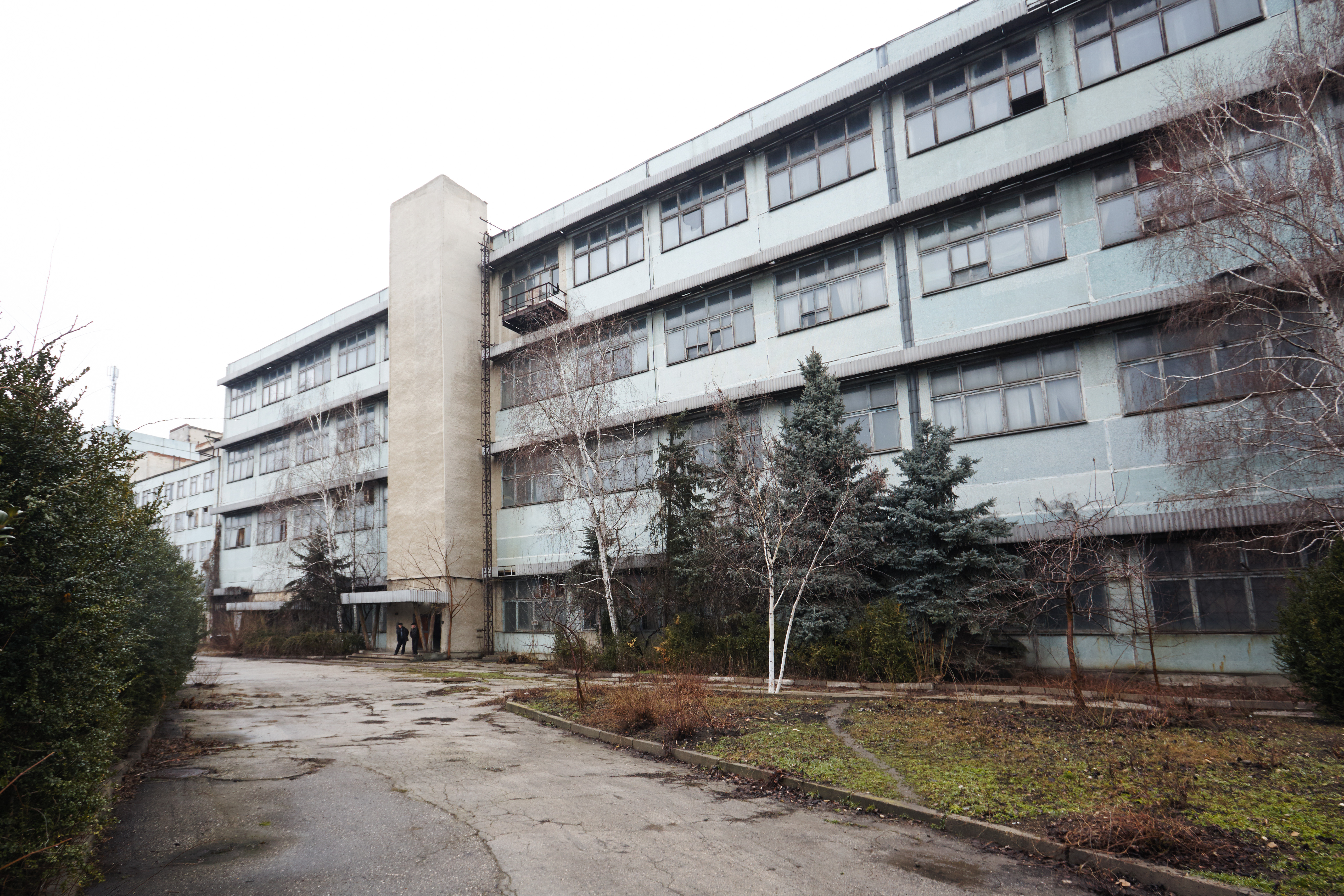 A industrial building of Raut Industrial Park